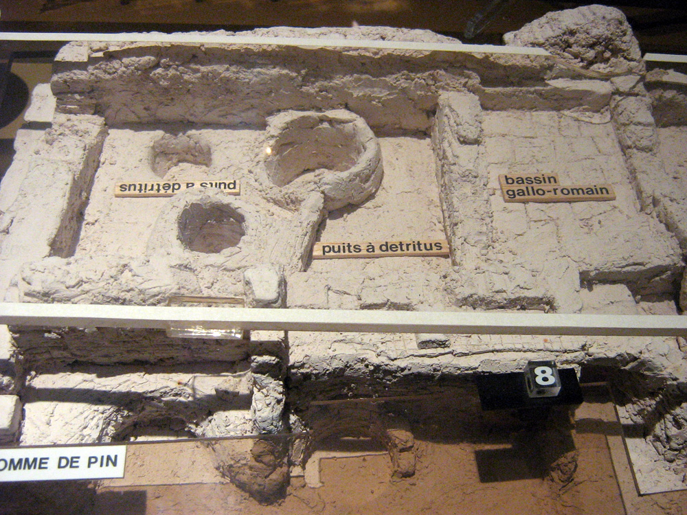 Modell of the archaeological Crypt under the Parvis of Notre-Dame de Paris.